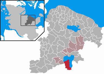 This map shows the area of the Gemeinde (municipality) Nehmten in the Kreis (district) Plön, Schleswig-Holstein, Germany.